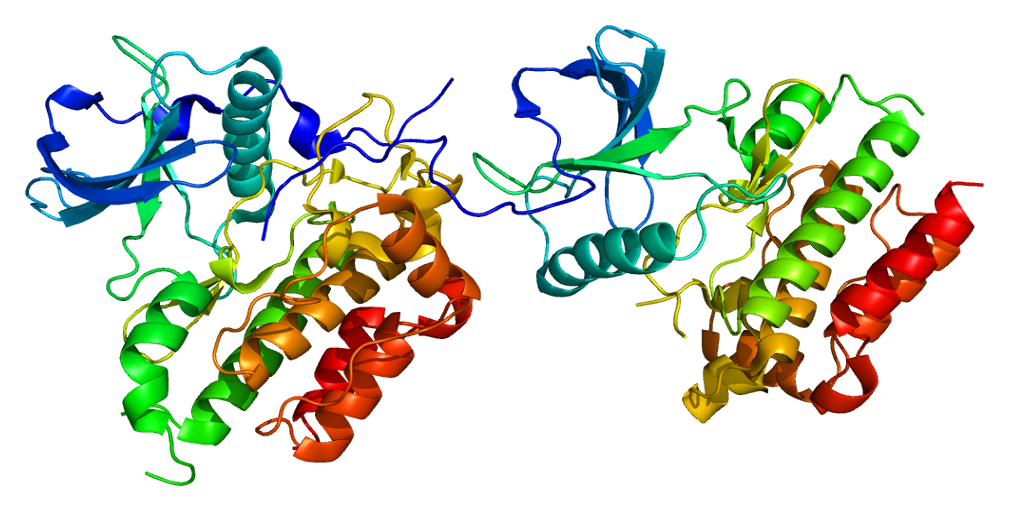 Structure of the KIT protein. Based on PyMOL rendering of PDB 1pkg.